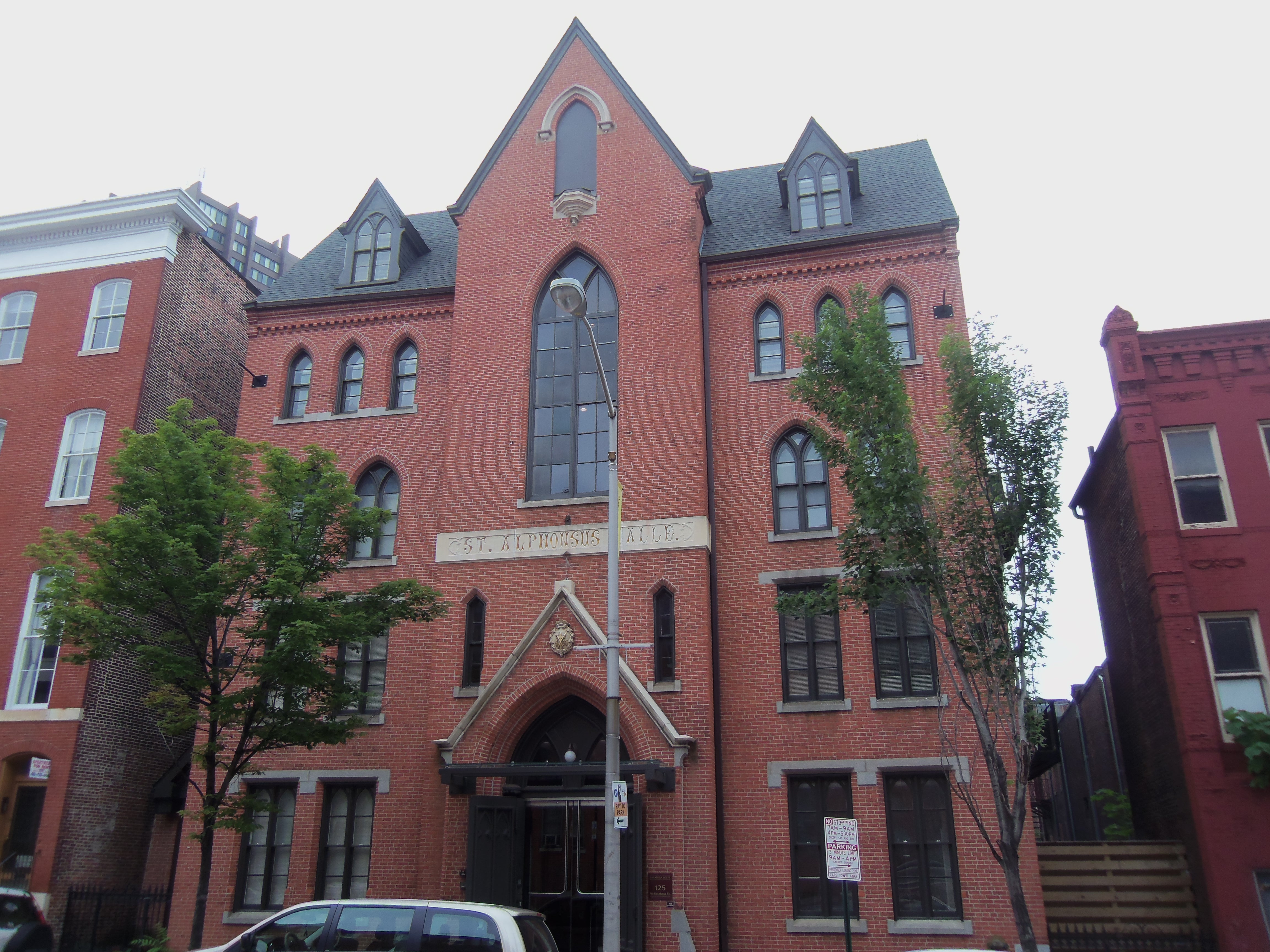 St. Alphonsus Halle in Baltimore, Maryland. Now a condo building it was originally a part of the St. Alphonsus parish complex. It is listed on the National Register of Historic Places.